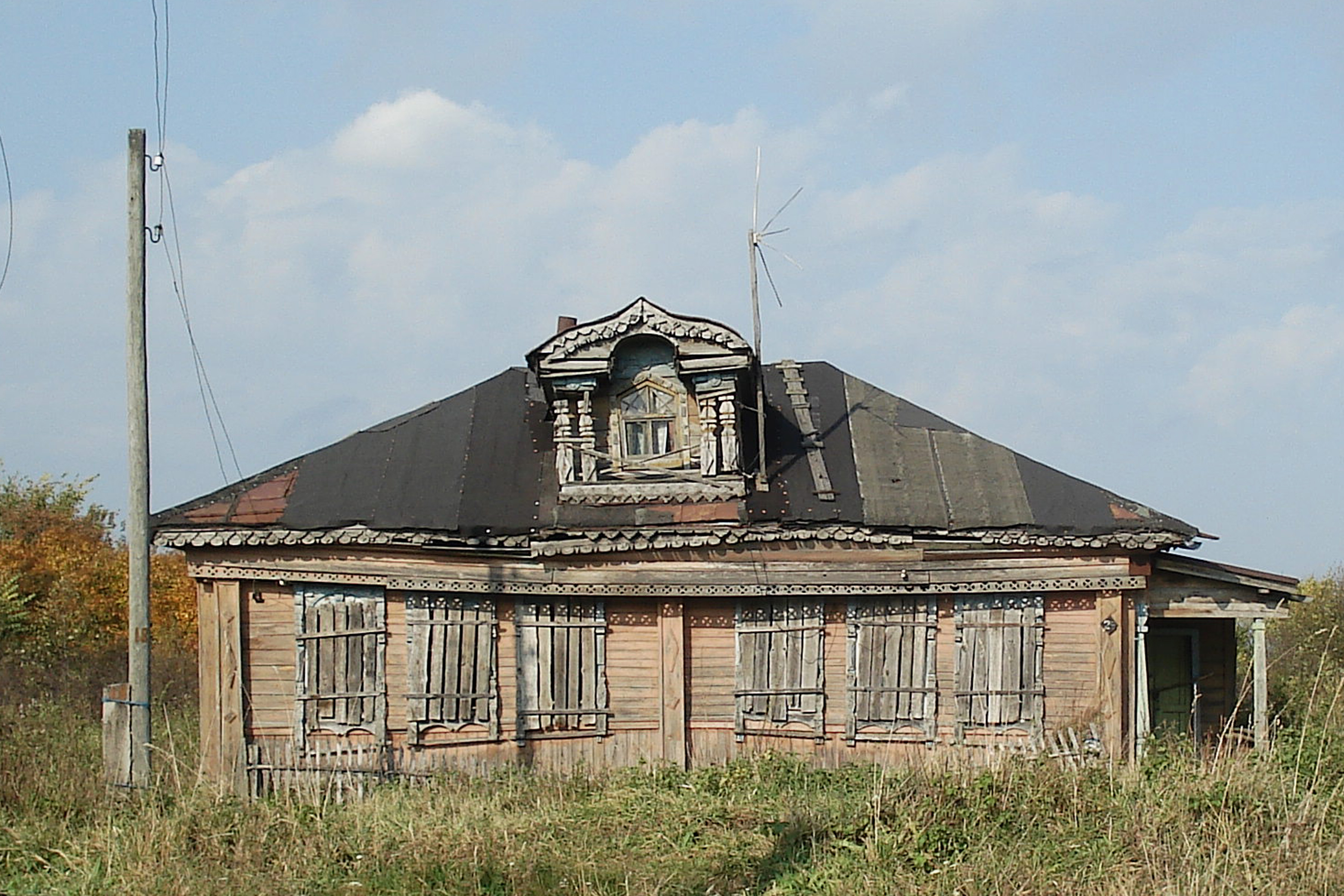 The old house in the vhe village of Viripaevo. Nizhegorodskaya oblast. Russia.